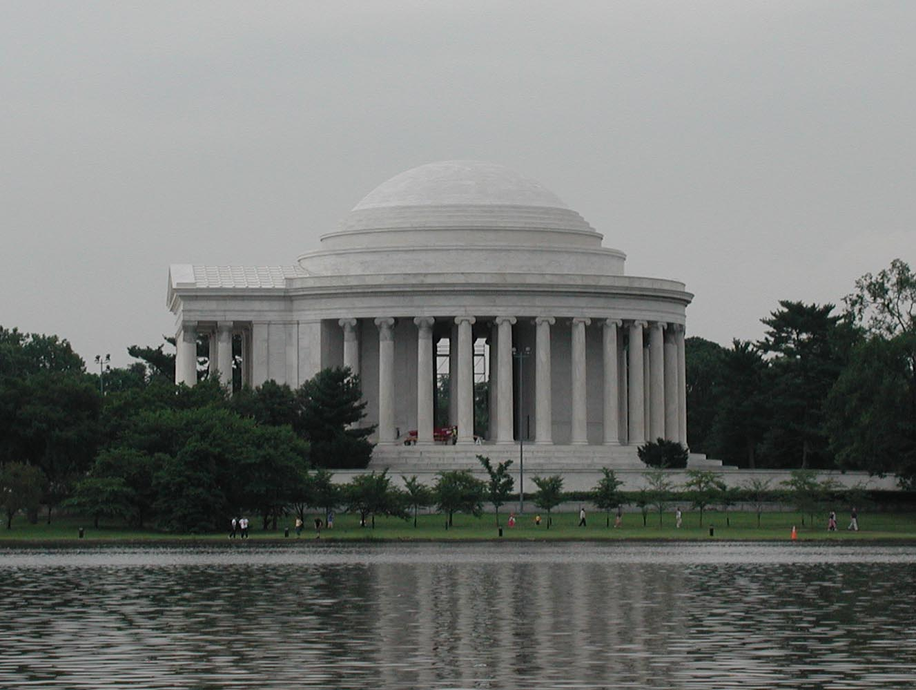 Picture of the Jefferson Memorial from across the tidal basin Taken by Raul654 on June 23, 2004 Category:Images of Washington, D.C.